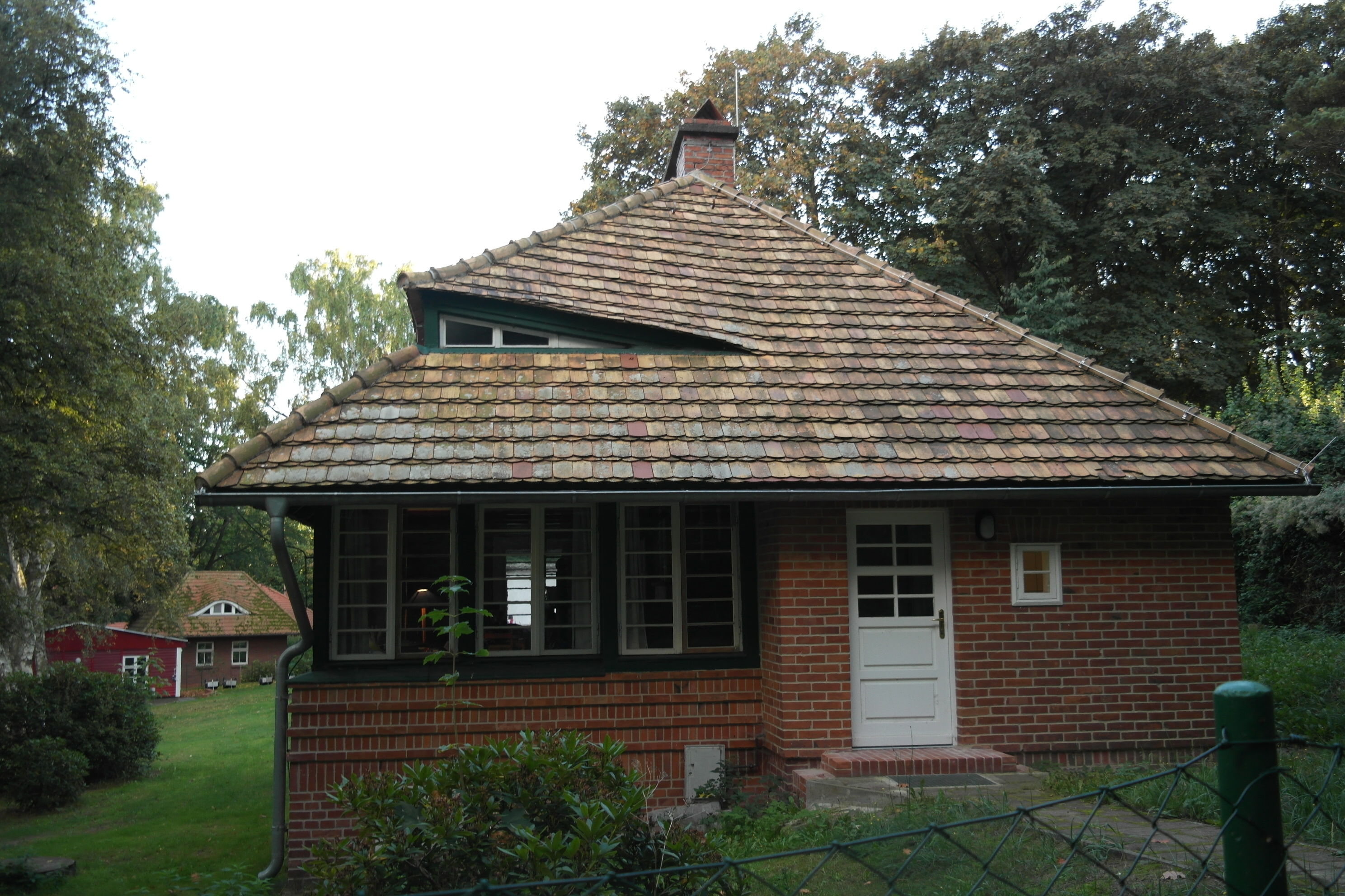 Kloster,Hiddensee, biological station, house for PhD students, cultural heritage